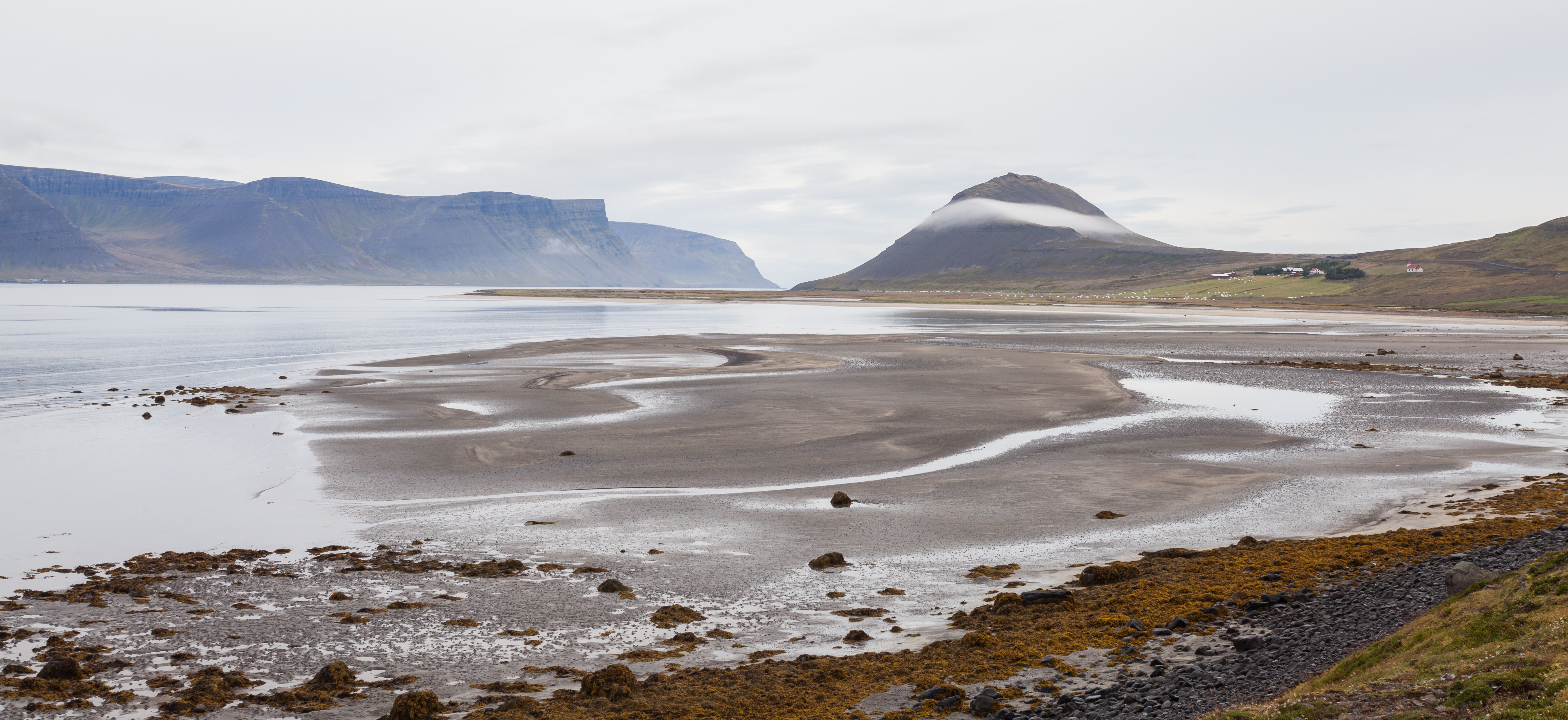 Dýrafjörður, Vestfirðir, Iceland